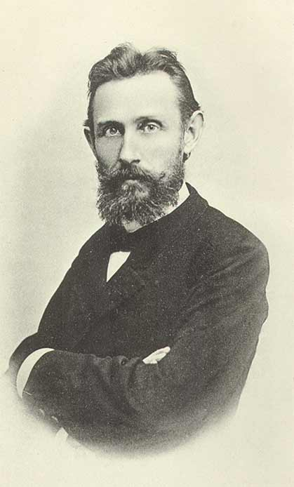 Ágost Heller Hungarian physicist and science historian